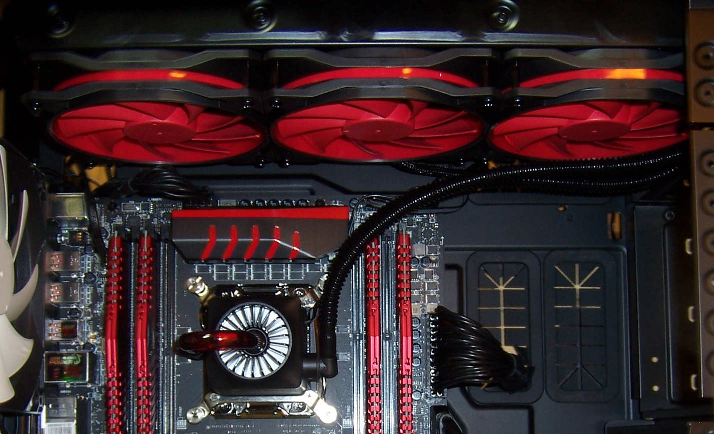 A 'Deepcool Captain 360' all-in-one cooling unit installed in a case. 360mm radiator with reactor style pump.